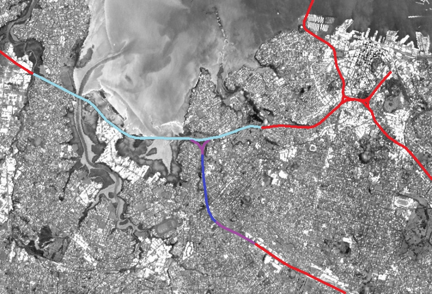 Indicative view of the Auckland Motorway network, showing works of the Waterview Connection in relation to other parts of the network. Auckland, New Zealand. Red - existing network, not affected by Waterview works. Light blue - existing network, added traffic lanes. Purple - new surface section of Waterview works. Dark blue - tunnelled section of Waterview works.